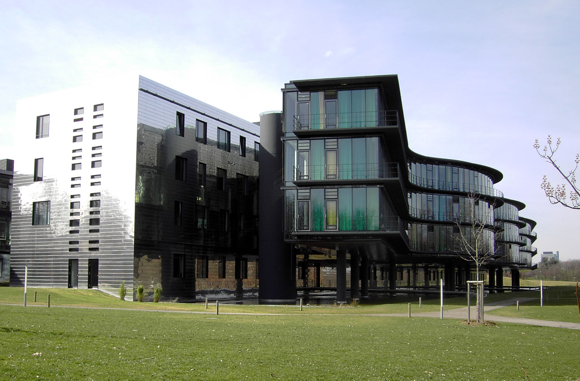 center of advanced european studies and research (caesar), Bonn